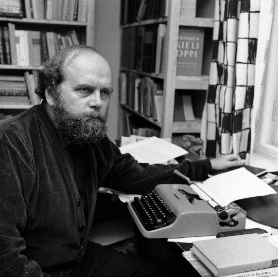 Photograph of the Finnish writer Jarno Pennanen (1906–1969) with a typewriter.